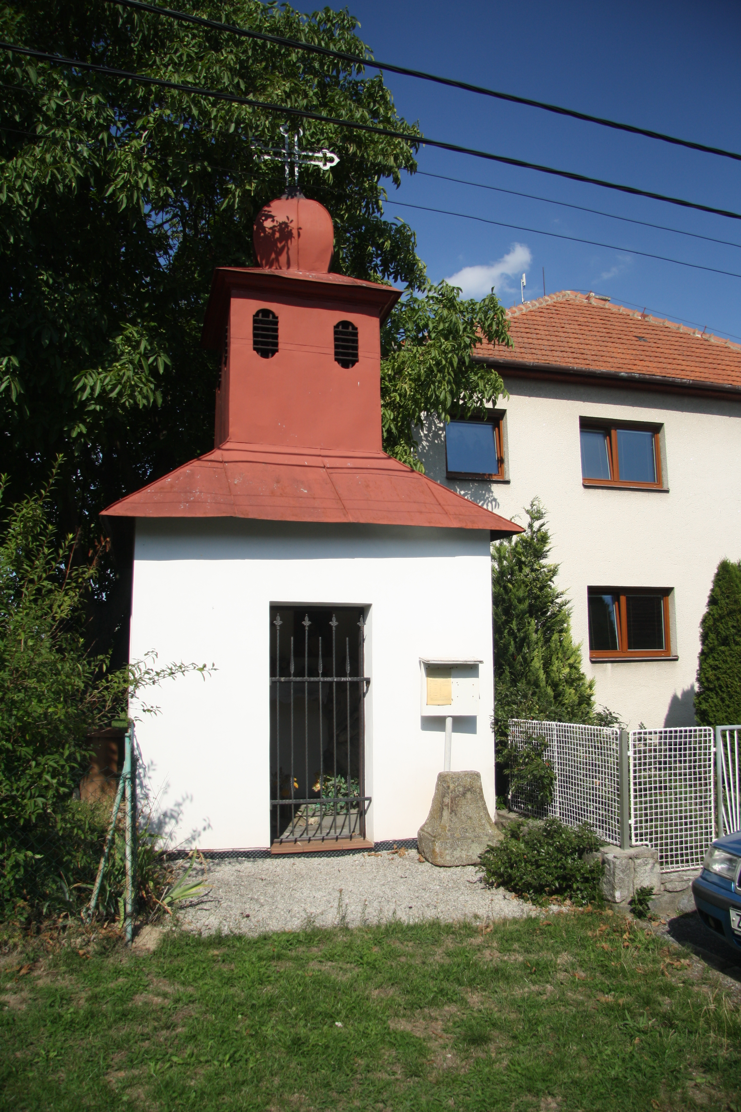 Chapel in Jáchymov, Velká Bíteš, Žďár nad Sázavou District.